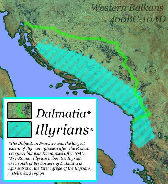 Illyrians and Dalmatia. The Dalmatian Province was the largest extent of Illyrian influence after the Roman conquest but was Romanized after 10AD. Pre-Roman Illyrian tribes, the Illyrian area south of the borders of Dalmatia is Epirus Nova, the later refuge of the Illyrians, a Hellenized region.